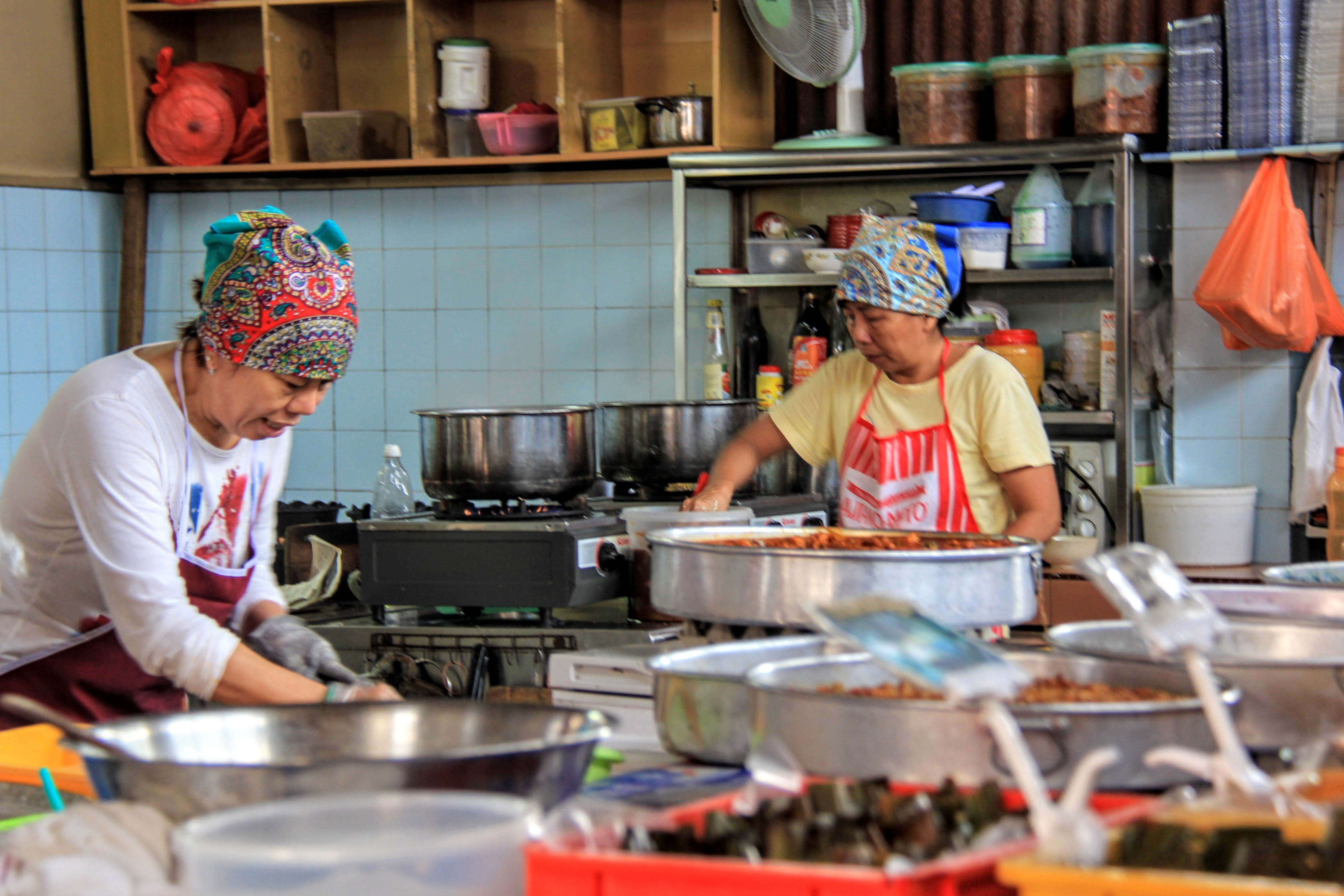 The Nyonya kwek makers kitchen for making delicious Nyonya kwek in Malacca.